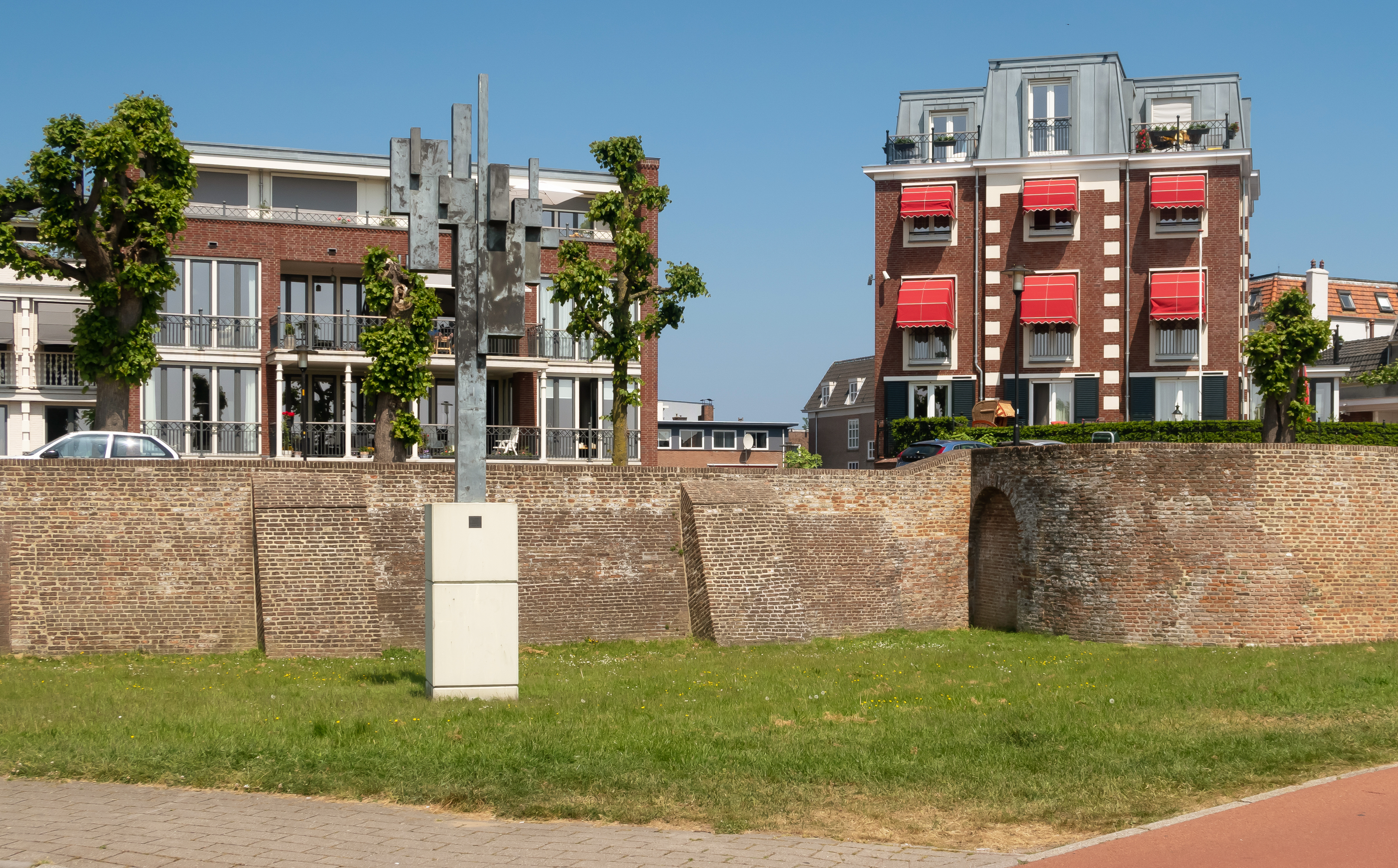 Tiel, sculpture (de Innerlijke evenwichtsoefening) designed by Pieter Kooistra